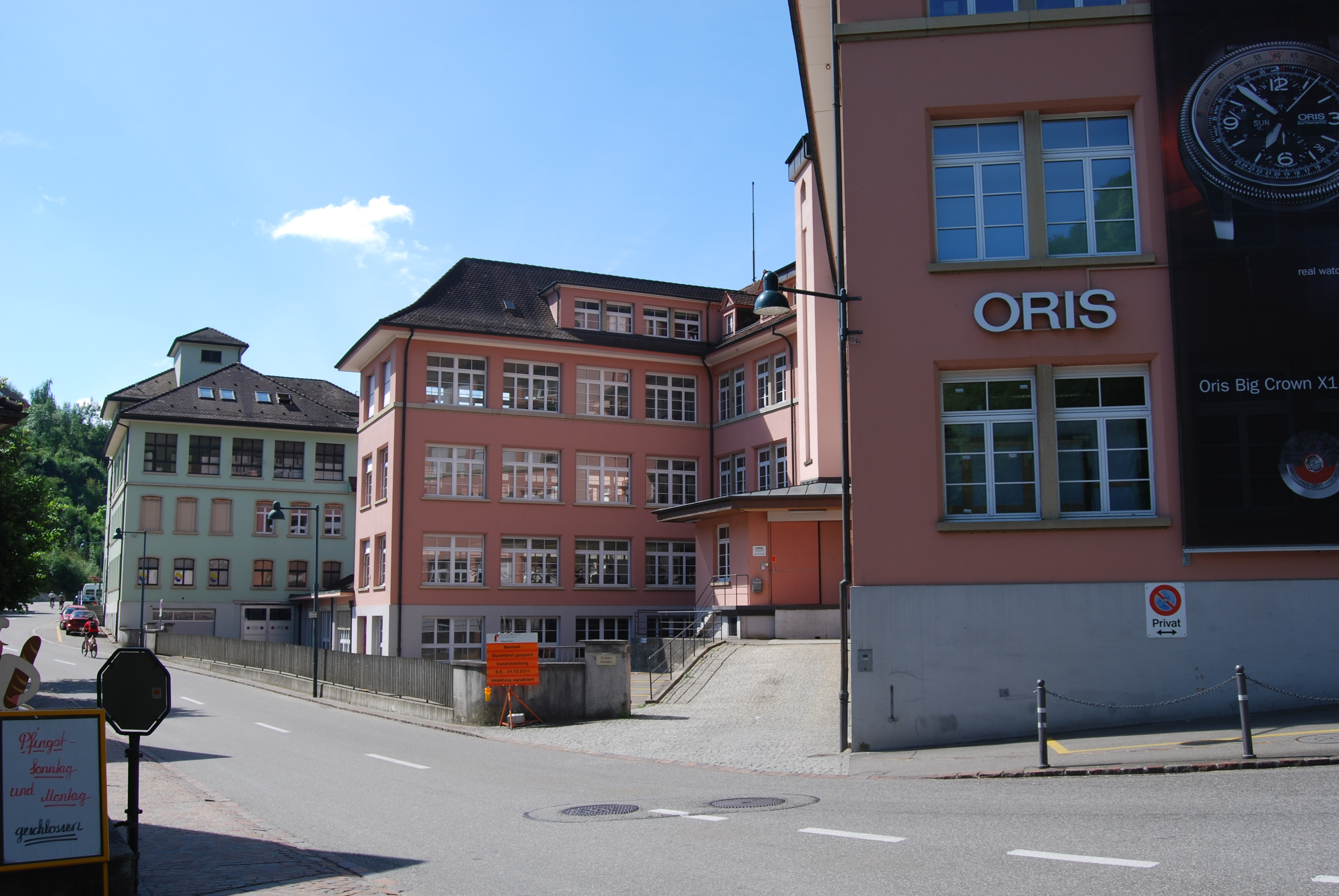 Hölstein, canton of Basel-Country, Switzerland